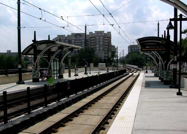 Stonewall LYNX station, along the Charlotte, North Carolina, LYNX Blue Line light rail.